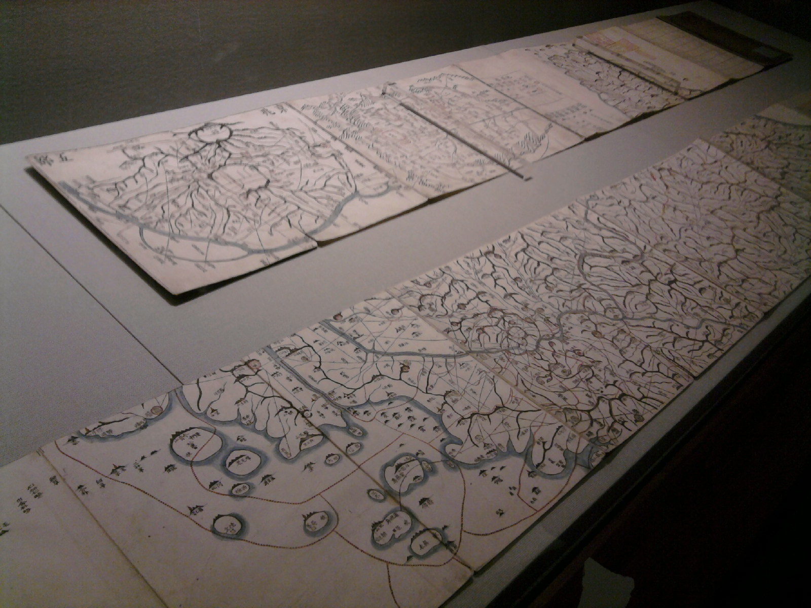 Daedongyeojido displayed in Seoul National University Kyujanggak Institute for Koreanology Studies